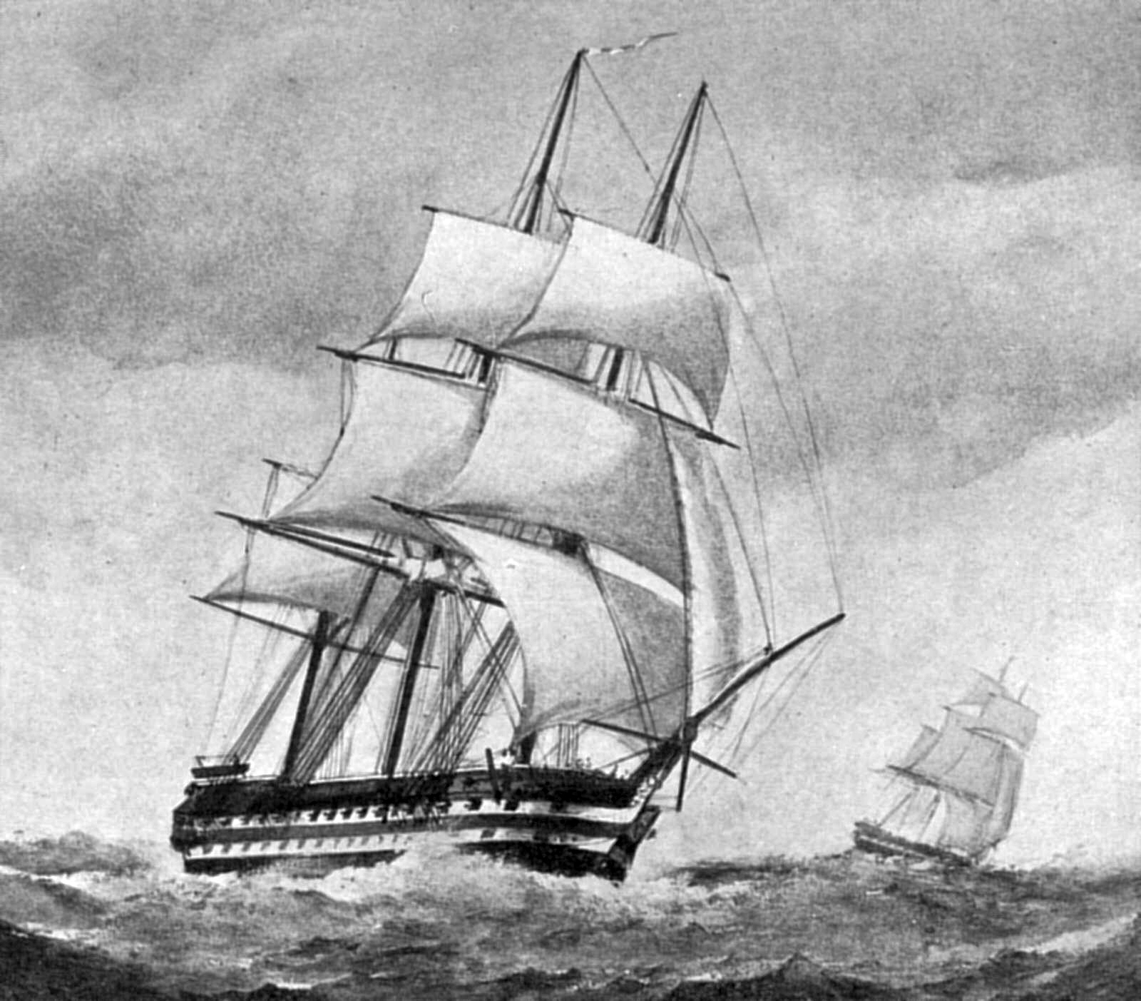 HMS Donegal, built at Devonport dockyard 1859, withdrawn to harbour at Portsmouth 1870, hulked (turned into accommodation) 1886, scrapped 1925. At Portsmouth she formed part of HMS Vernon torpedo school, and her name was changed to Vernon in 1886.